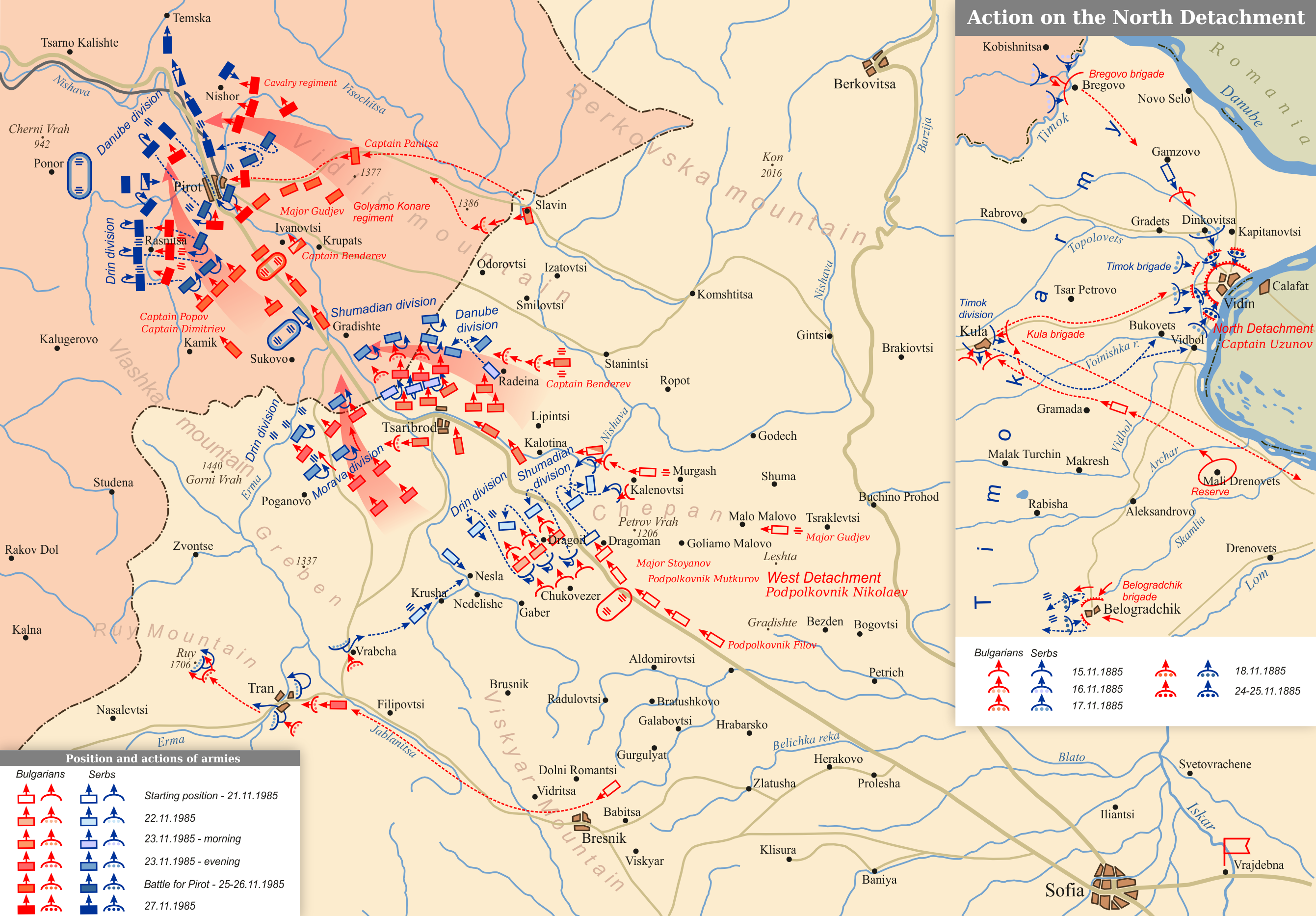 Serbo-Bulgarian War. Counteroffensive of the Bulgarian Army (22-27.XI.1885) Based on: [1]